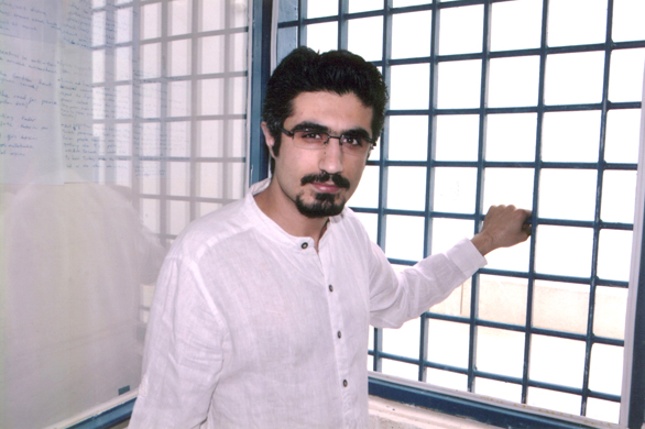 This is a photograph of Turkish journalist Barış Pehlivan at Silivri Prison, in İstanbul, Turkey.